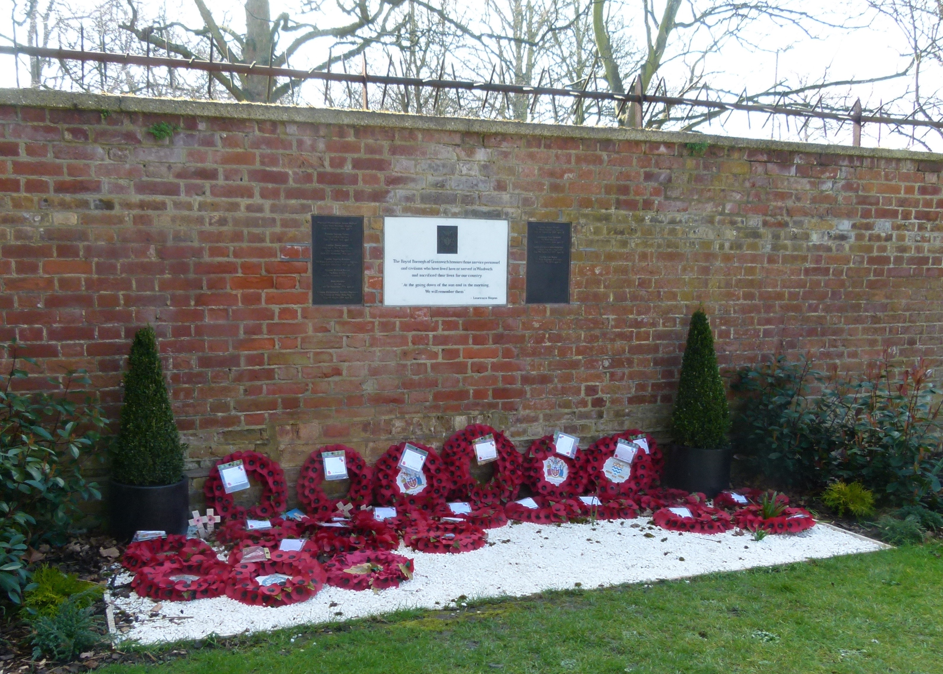 Memorial garden in the ruined Royal Garrison Church of St George, Woolwich, south east London, UK.